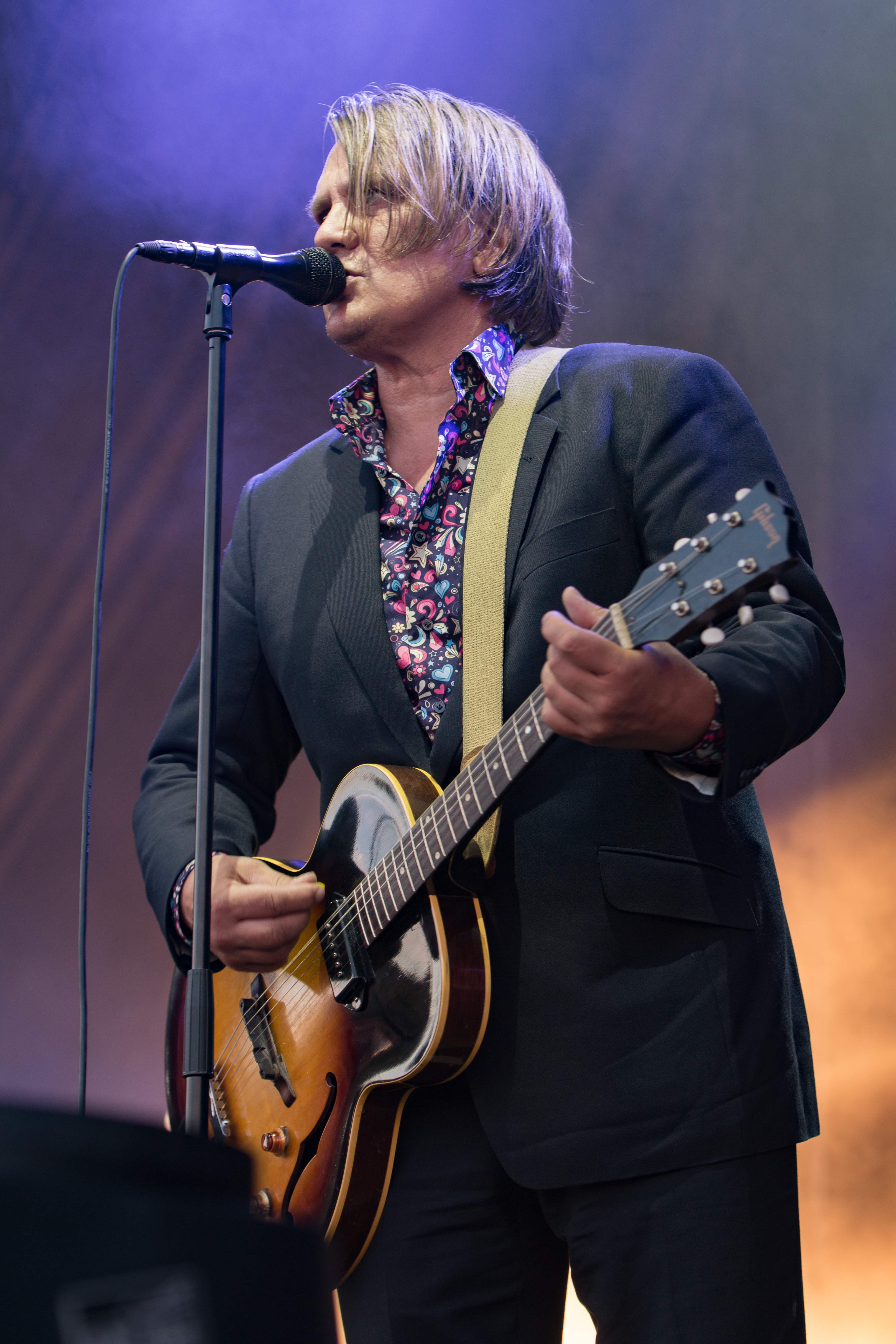 Sven Regener von